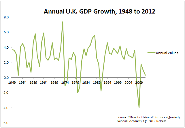 This graph shows the annual U.K. GDP growth from 1948 to 2012, expressed in percentage terms, with data taken from the Office of National Statistics. It is my own work. Please note that it ends at the Q4 2012 period. To see a version of this image with the years under Prime Minister Margaret Thatcher highlighted, please see: here and here. To see the original data set, please see: here